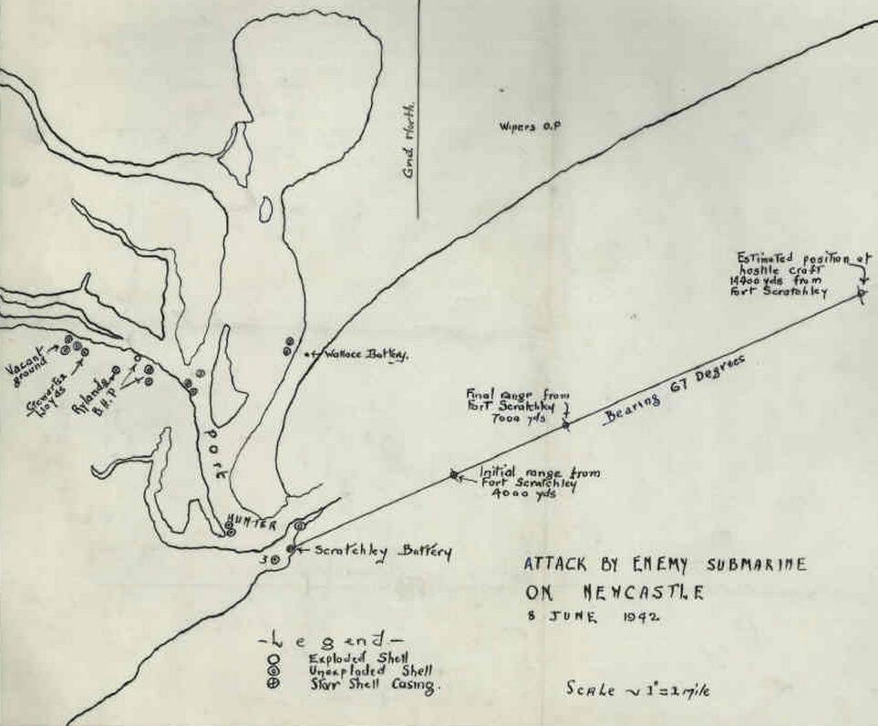 Royal Australian Navy naval intelligence map depicting the Japanese submarine I-21's attack on the Australian city of Newcastle in the early hours of 8 June 1942